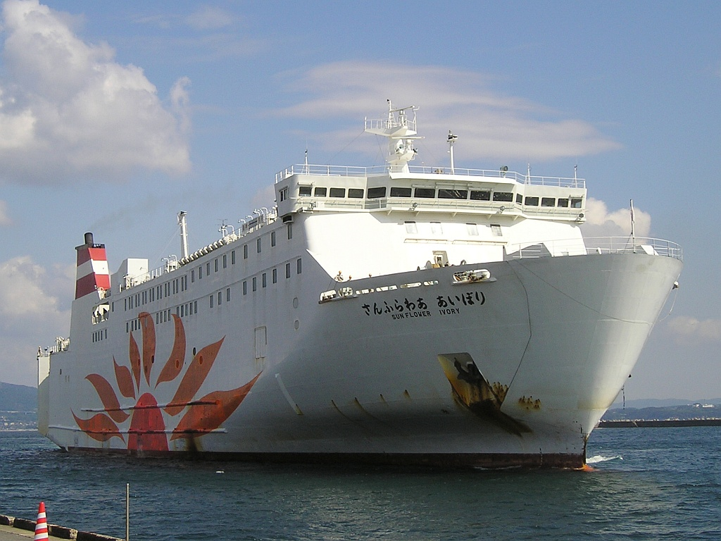 Sunflower Ivory of Kansai Kisen at the Port of Beppu. IMO Number: 9162162 Callsign: JI3634 Length: 153 m Beam: 25 m